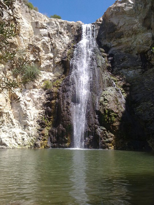 Geography of Israel